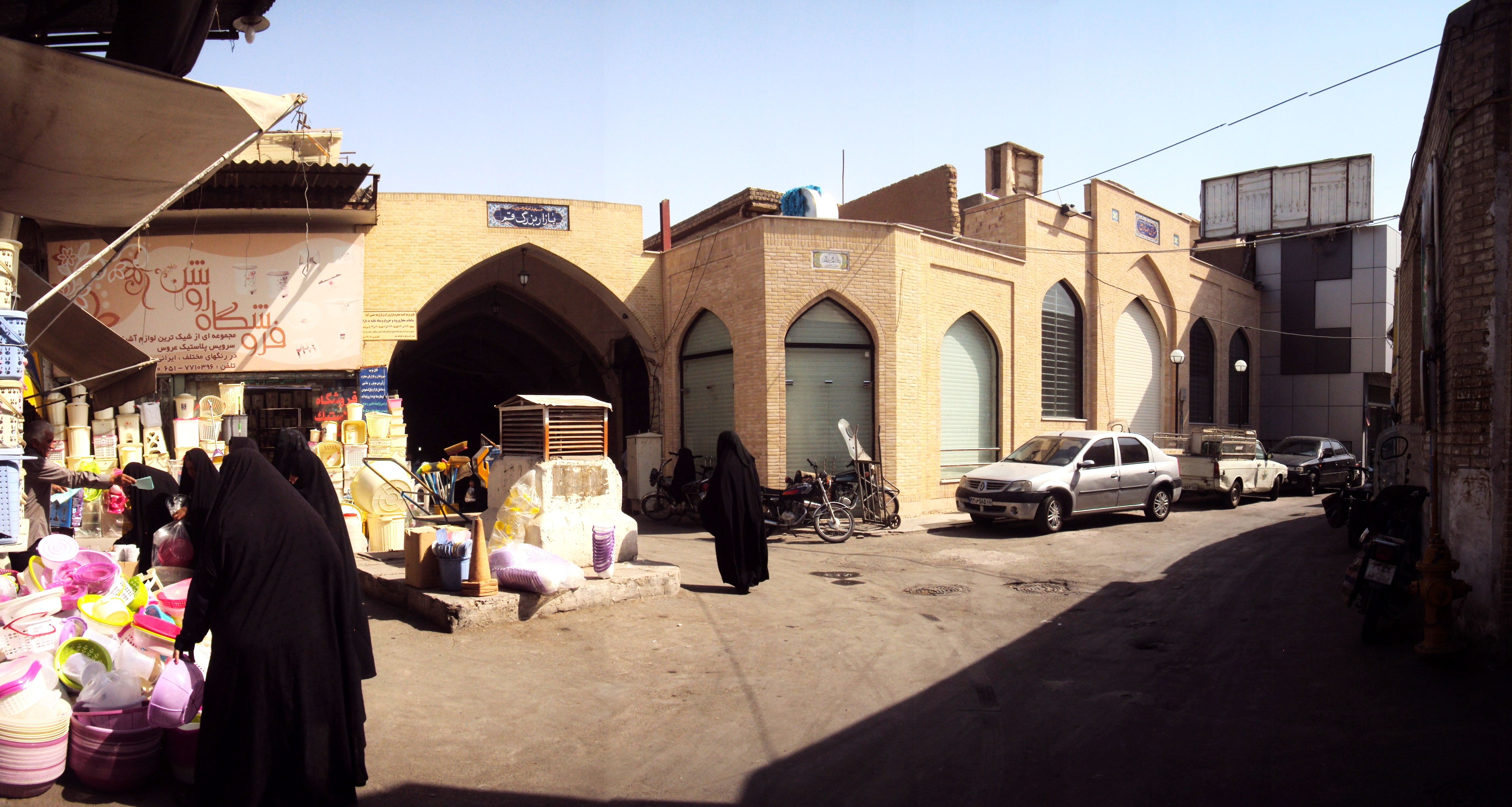 Bazaar Of Qom